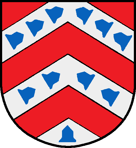 Coat of arms of the municipality Haseldorf in Schleswig-Holstein, Germany.